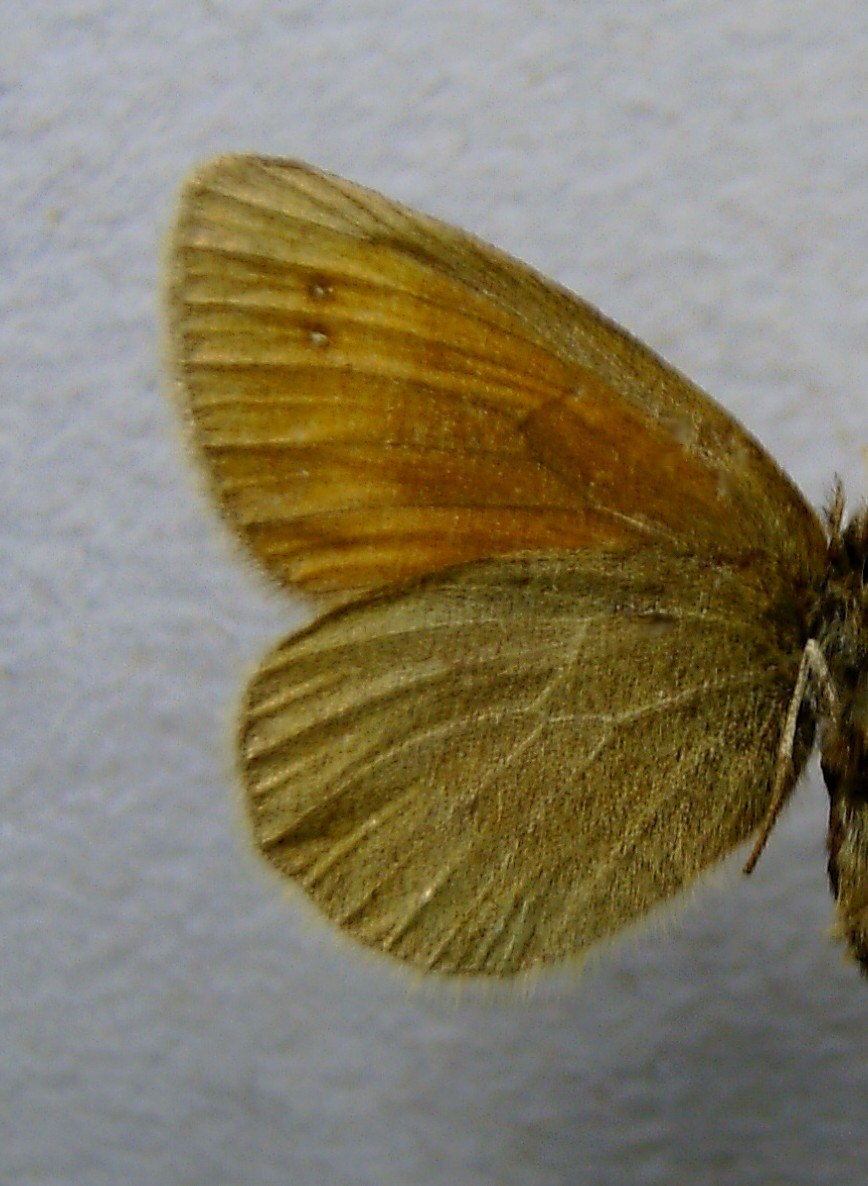 Erebia claudina